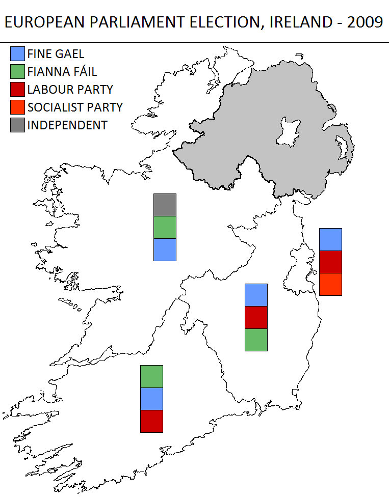 Mapped result of the 2009 European Parliament elections in the Republic of Ireland.